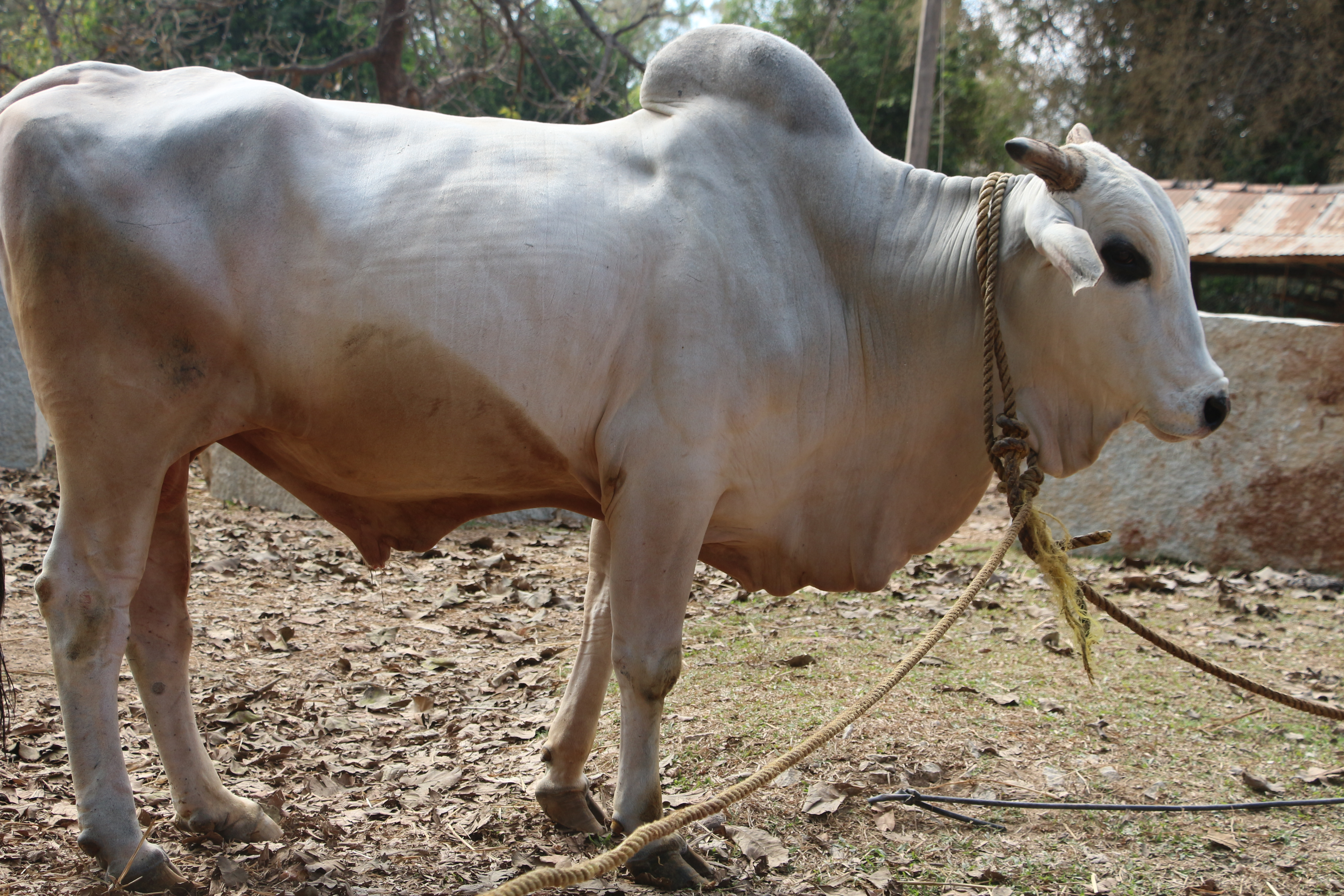 Indian cow breed Ongole ಕನ್ನಡ: ಭಾರತೀಯ ಗೋತಳಿ ಓಂಗೋಲ್